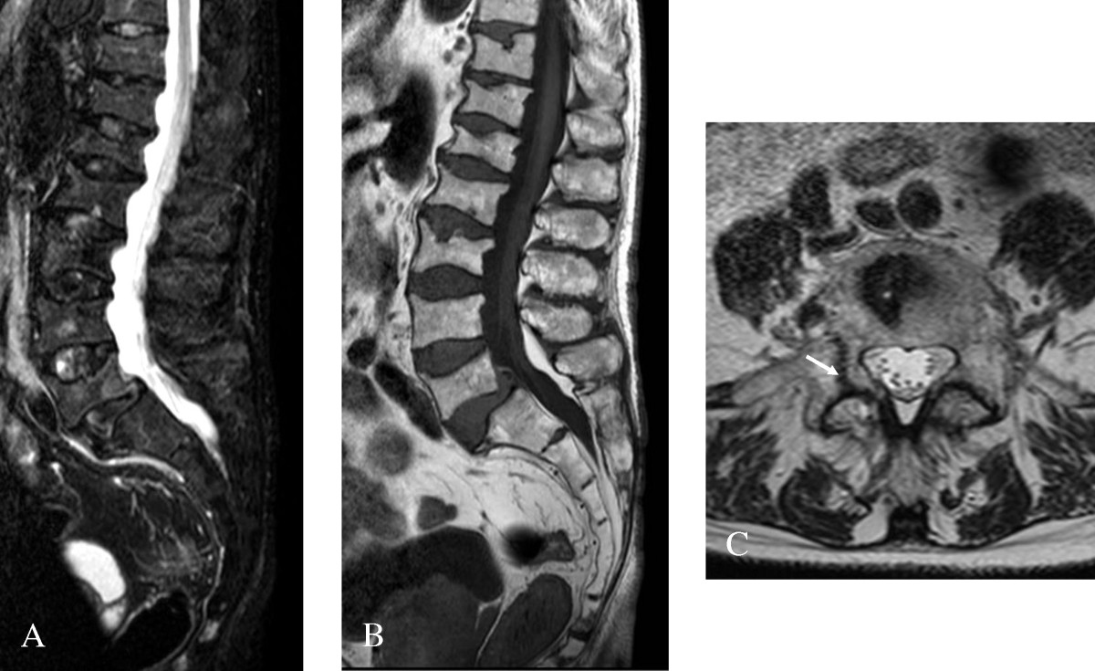 Bone magnetic resonance imaging in a Fabry patient with severe osteoporosis: A (STIR, sagittal view) and B (T1, sagital median): several vertebral body fractures are seen, without signal anomaly in T1 or T2 in favor of ancient fractures. A mild spondylolisthesis of L5 on S1 can be observed. C (T2, axial view): fracture of the right pedicula of L5 (arrow) in a 72-year-old patient with severe osteoporosis. Courtesy: Dr Robert CARLIER, CHU Raymond Poincaré, Garches, France.